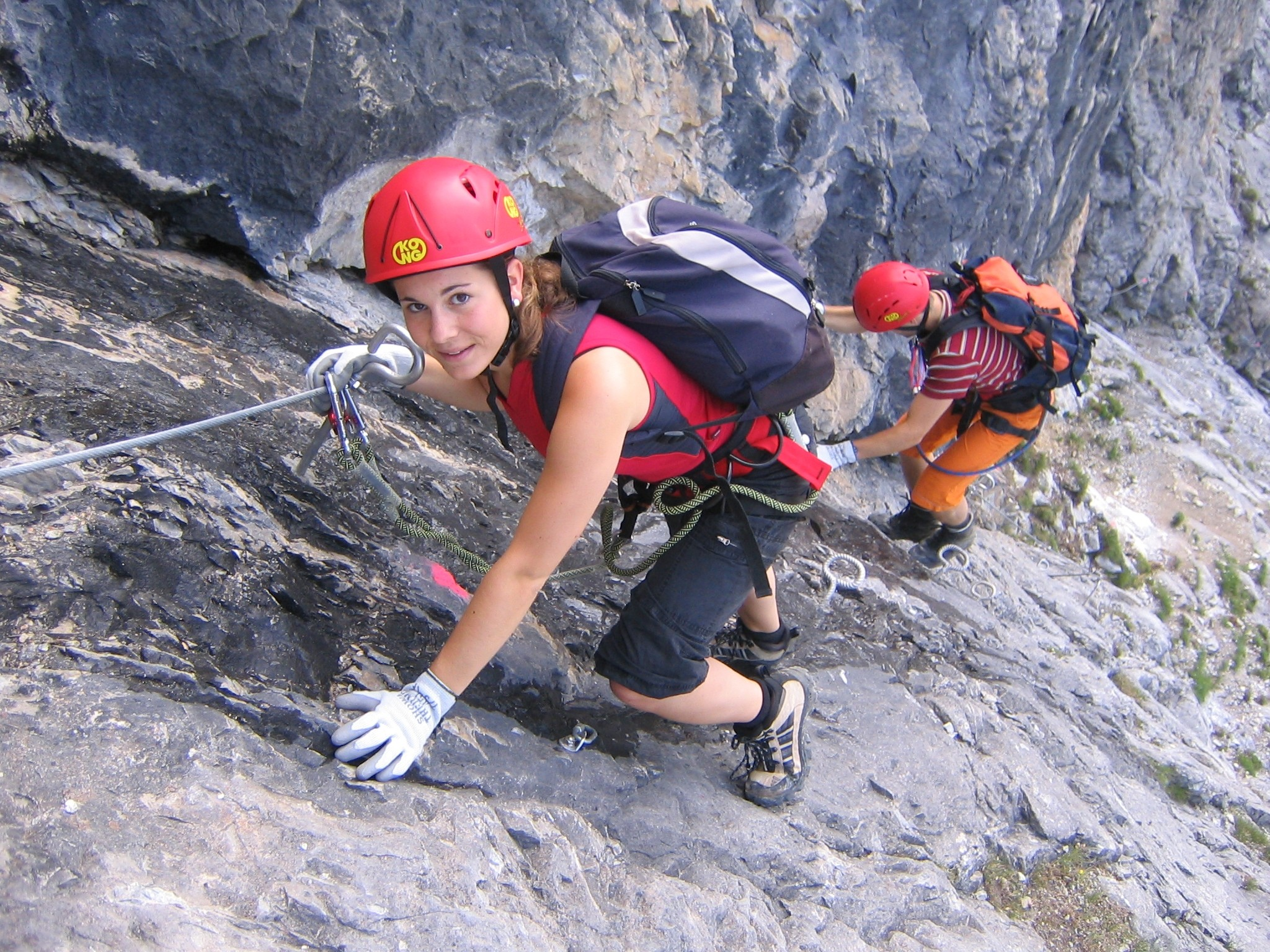 Climber on fixed rope route Piz Mitgel, Savognin, Grisons, Switzerland